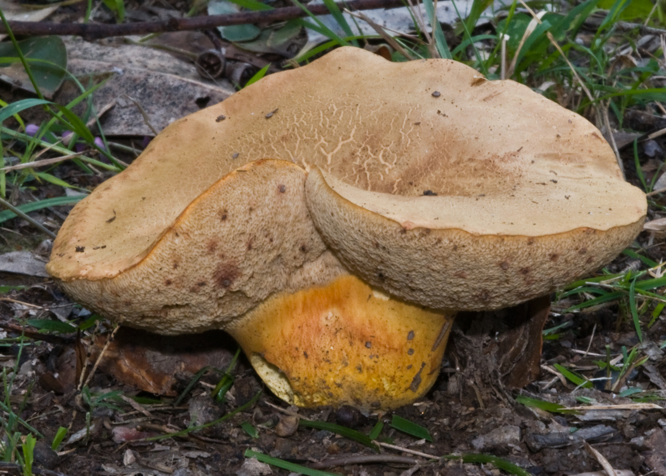 Tylopilus sp.